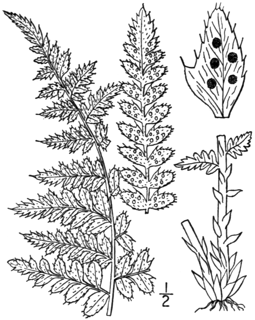 Fig. 36. Polystichum braunii from the second edition of An Illustrated Flora of the Northern United States, Canada and the British Possessions (New York, 1913)